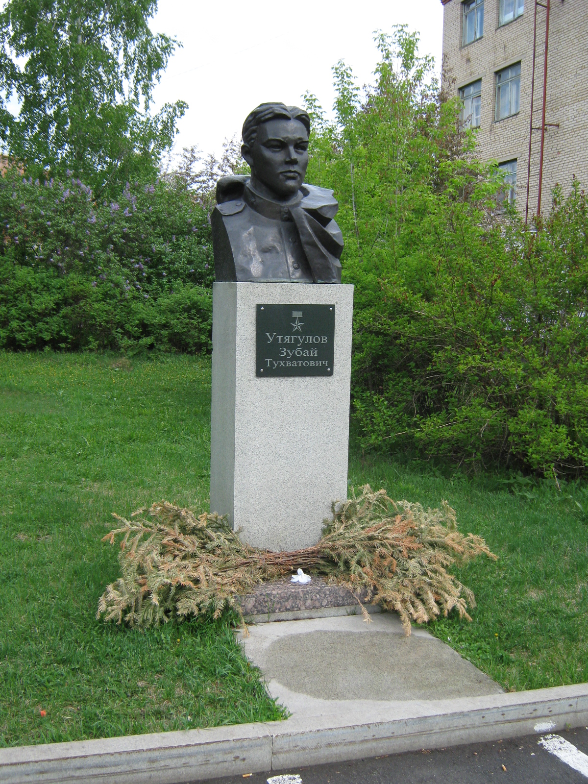 Utyagulov Zubai Tuhvatovich monument in Beloretsk